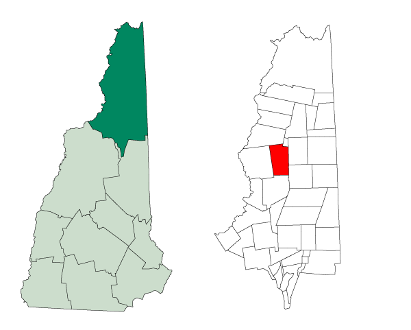 Map of a municipality in Coos County, New Hampshire